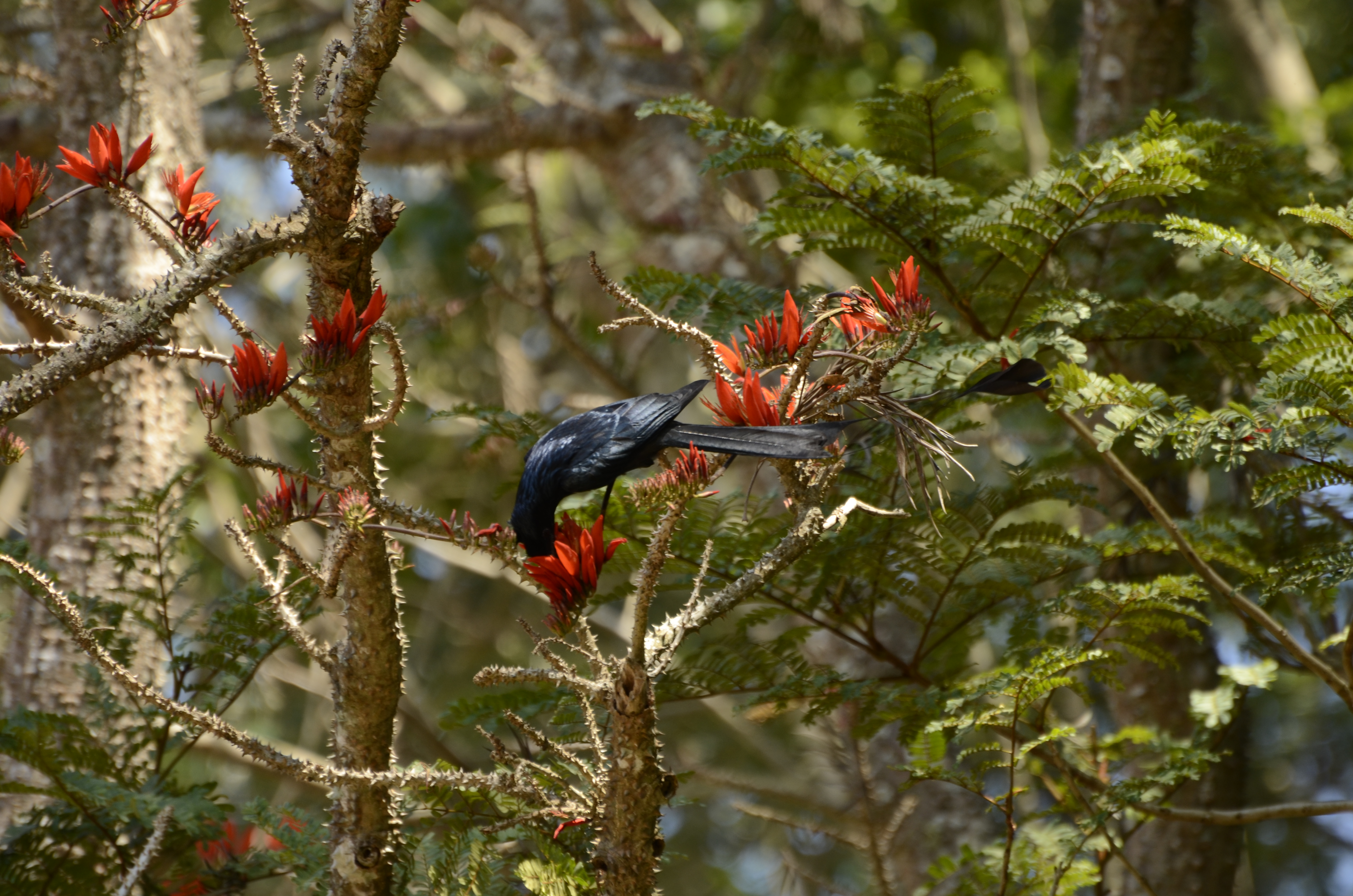 Greater racket tailed drongo Dicrurus paradiseus on erythrina tree2